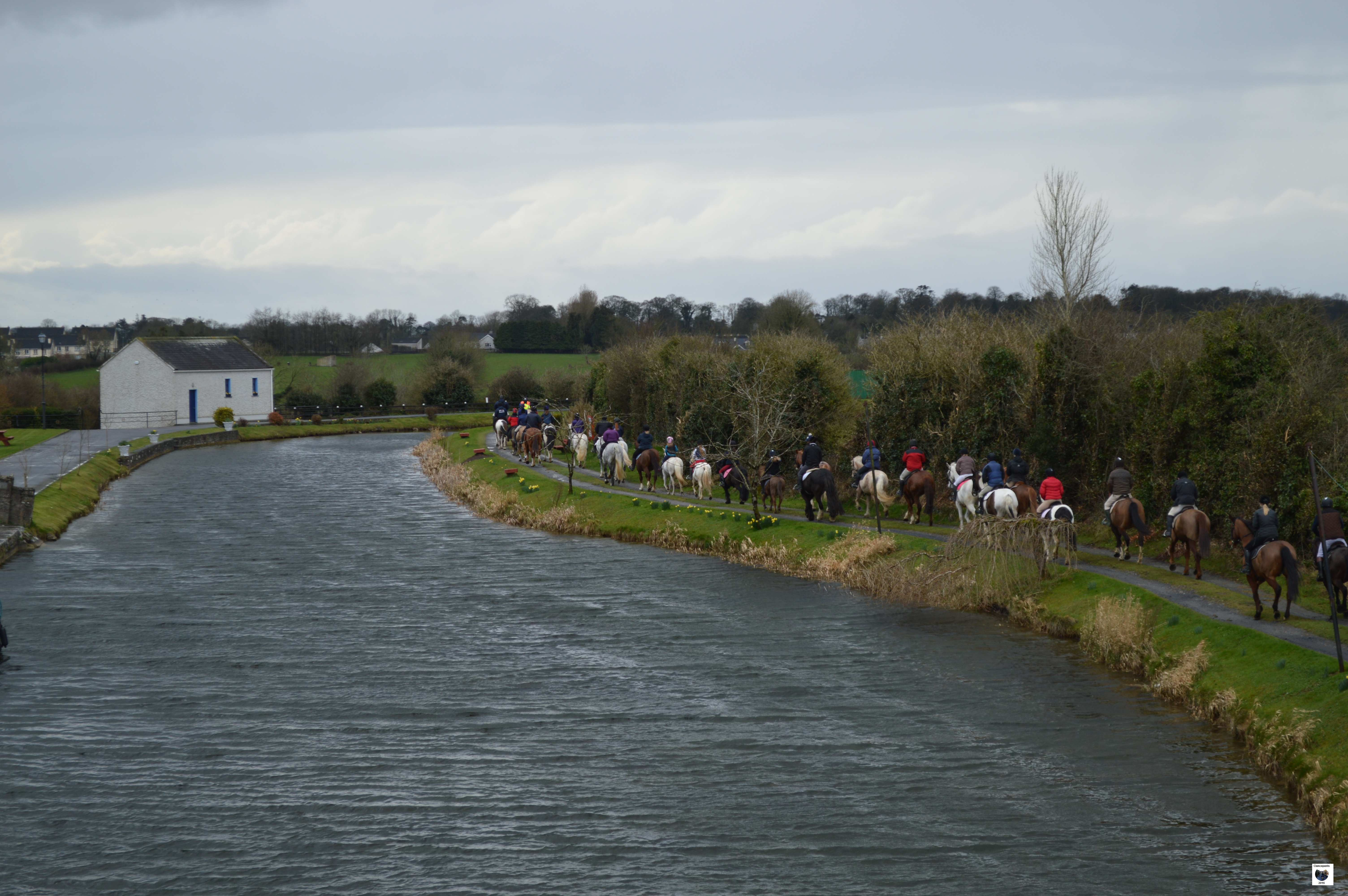 Hack through Brannigan Harbour Ballymahon